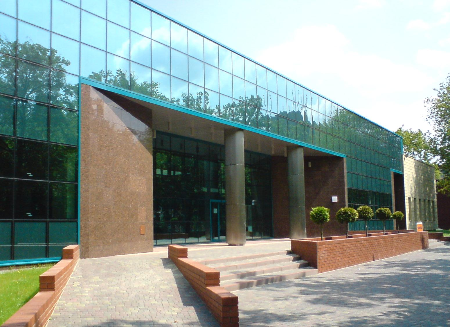 Molecular Biology Building of University of Lodz